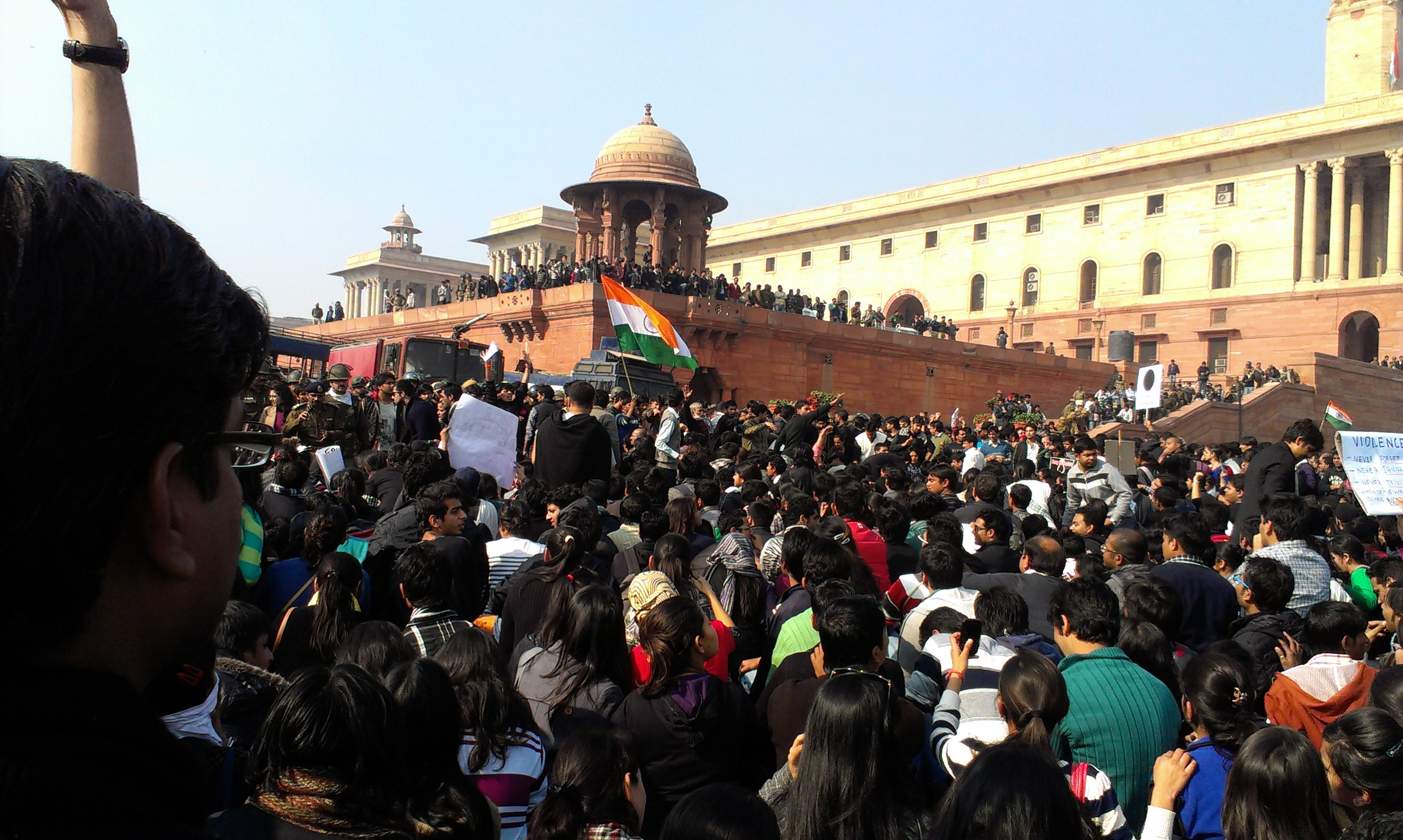 December 22, students protest the rising violence against women, Raisina Hill/ Rajpath